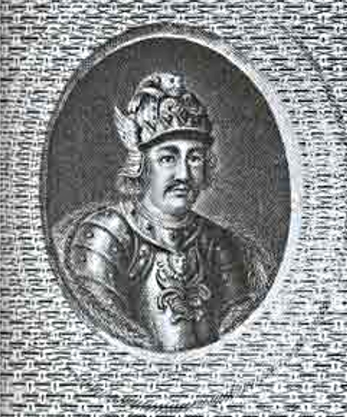 Michael I of Kiev